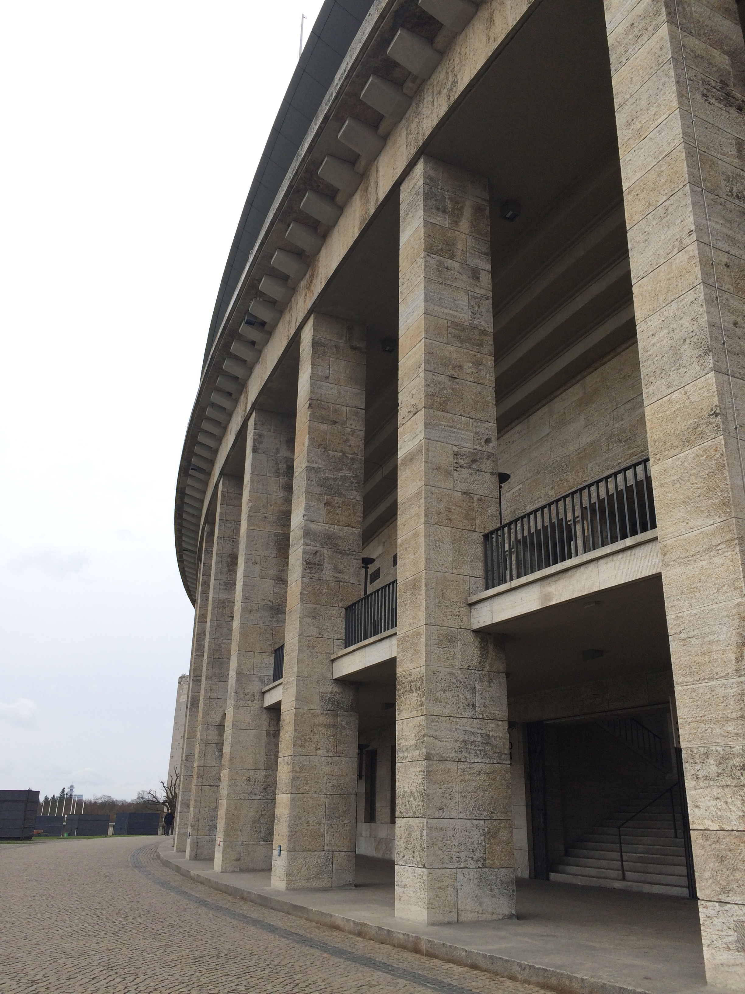 Facade of Olympiastadion Berlin